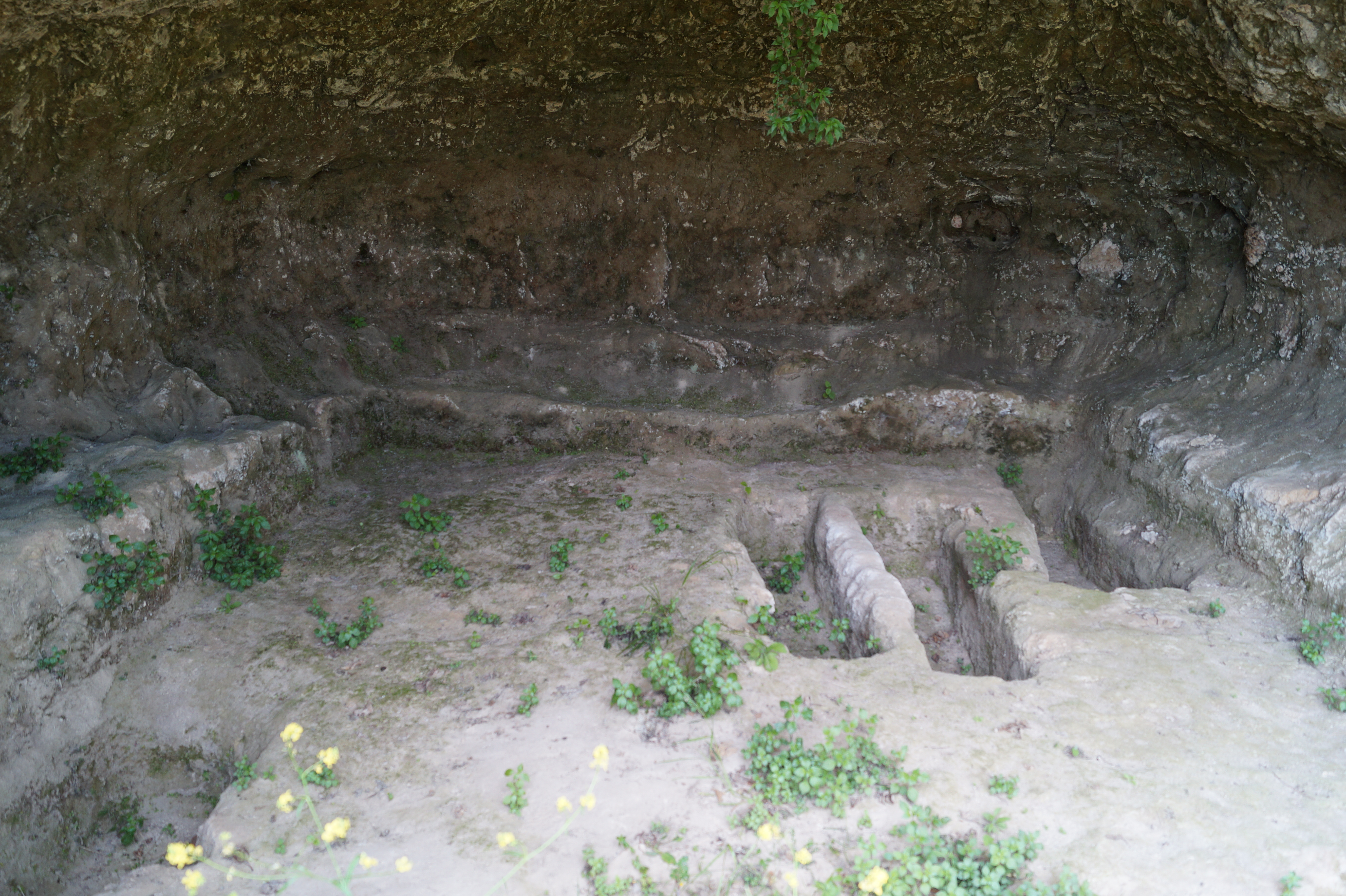 Aidonia, Corinthia, Greece: Mycenaean cemetery of Aidonia, partly collapsed burial chamber of Tomb 5.